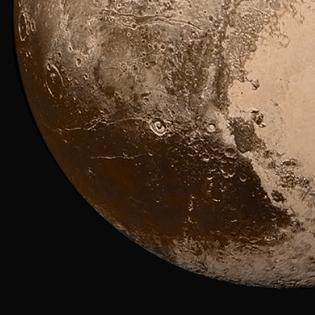 Eastern half of Cthulhu Regio on Pluto